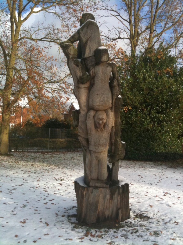 Photograph of a sculpture in the Memorial Park, North Walsham, carved in 1999 by Mark Goldsworthy from the trunk of a 120-year-old oak tree, to commemorate the struggle of the peasants in the 1381 Battle of North Walsham and the founding of the Agricultural Workers Union in 1906.